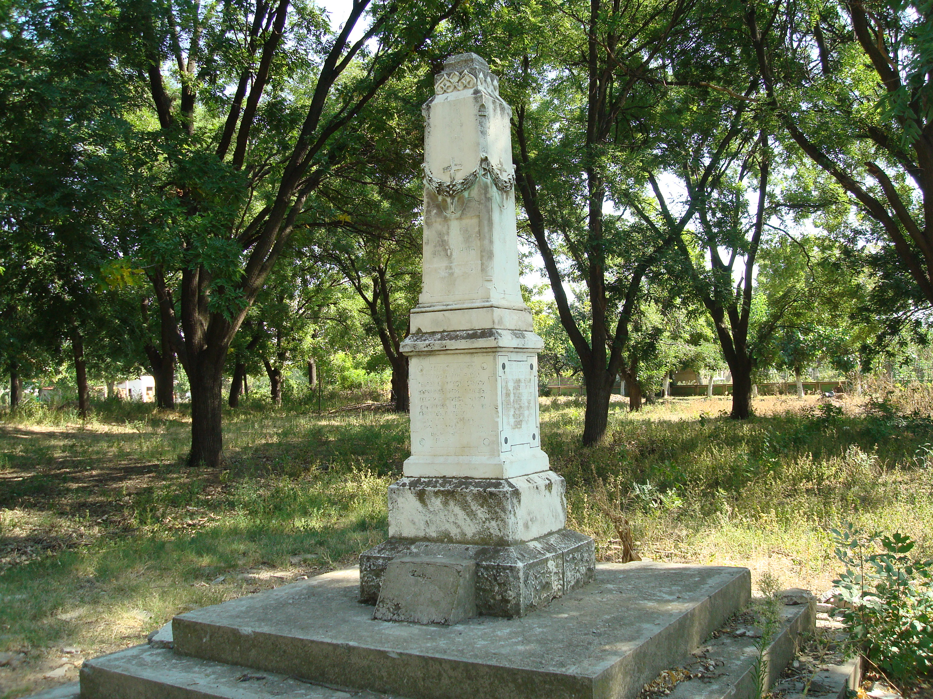 A war memorial in the village of Kovachitsa, Bulgaria.